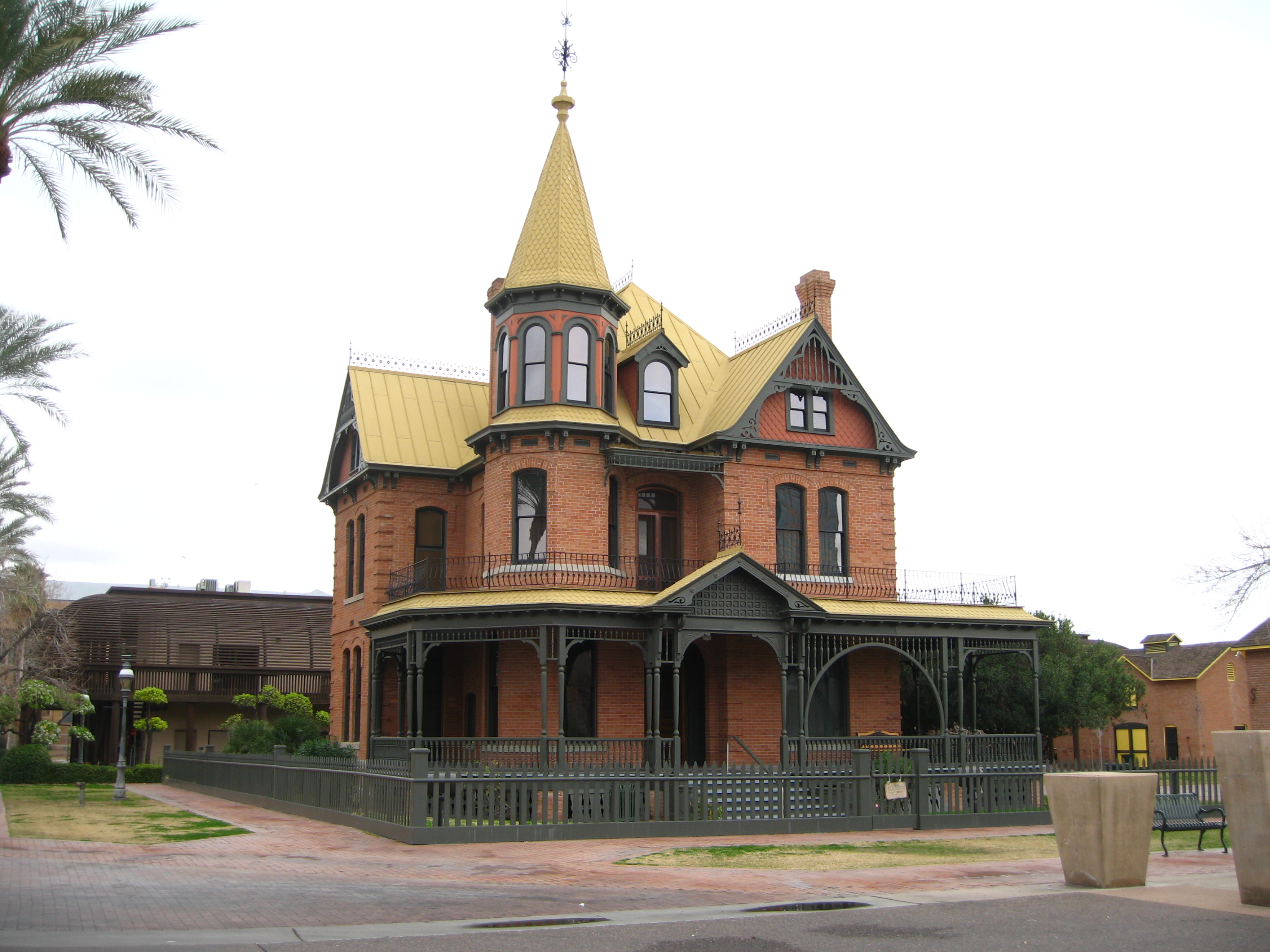 Rosson House, Phoenix, AZ, USA.